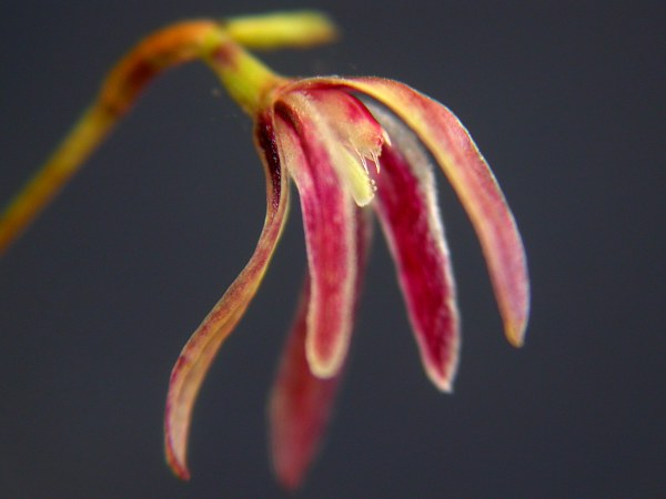 Anathallis